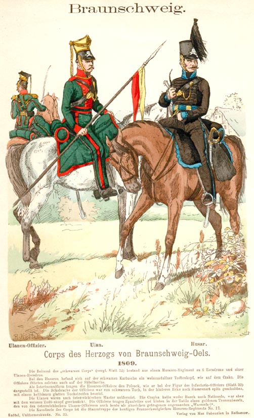 Braunschweig. Corps des Herzogs von Braunschweig-Öls. 1809